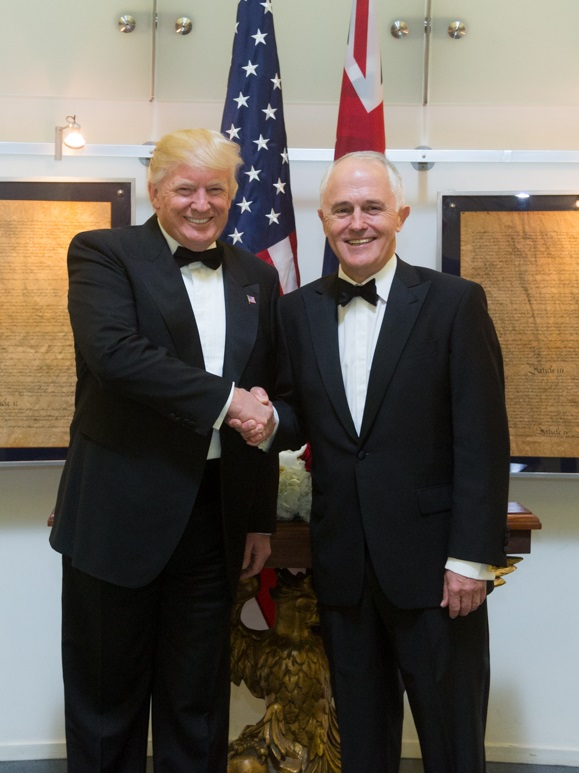 President Donald Trump meets with Australian Prime Minister Malcolm Turnbull for a bilateral meeting aboard the Intrepid Sea, Air & Space Museum, Thursday, May 4, 2017, in New York City. The two leaders also participated in the 75th anniversary of the Battle of the Coral Sea commemorative dinner aboard the aircraft carrier Intrepid.